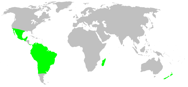 Tengellidae habitat distribution, drawn after Platnick: World Spider Catalog 7.0. This is not at all a precise rendering of the distribution! If you have better information, please replace this map, or send me the info, and i will redraw it.